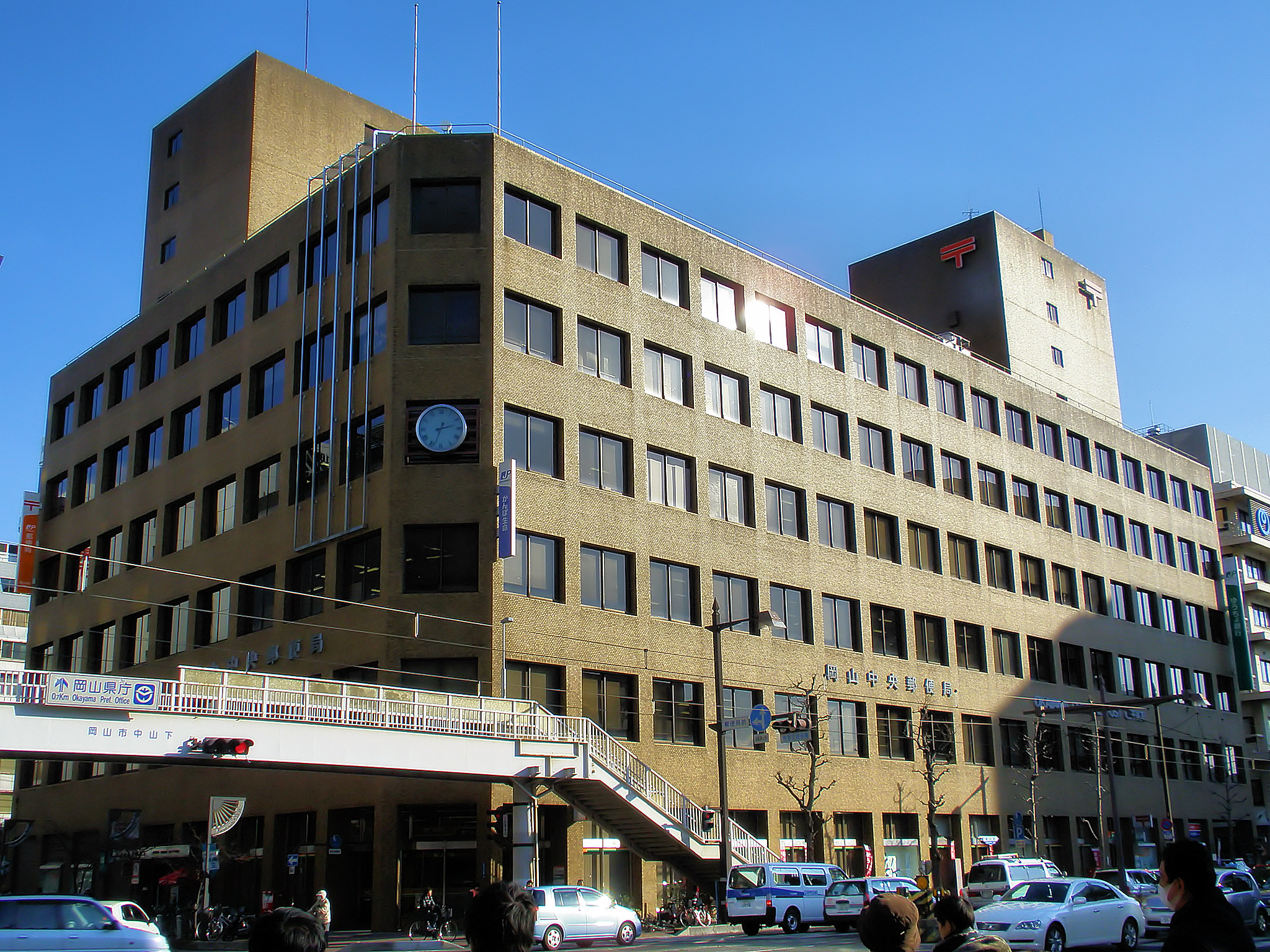 Okayama central post office, Kita-ku, Okayama.